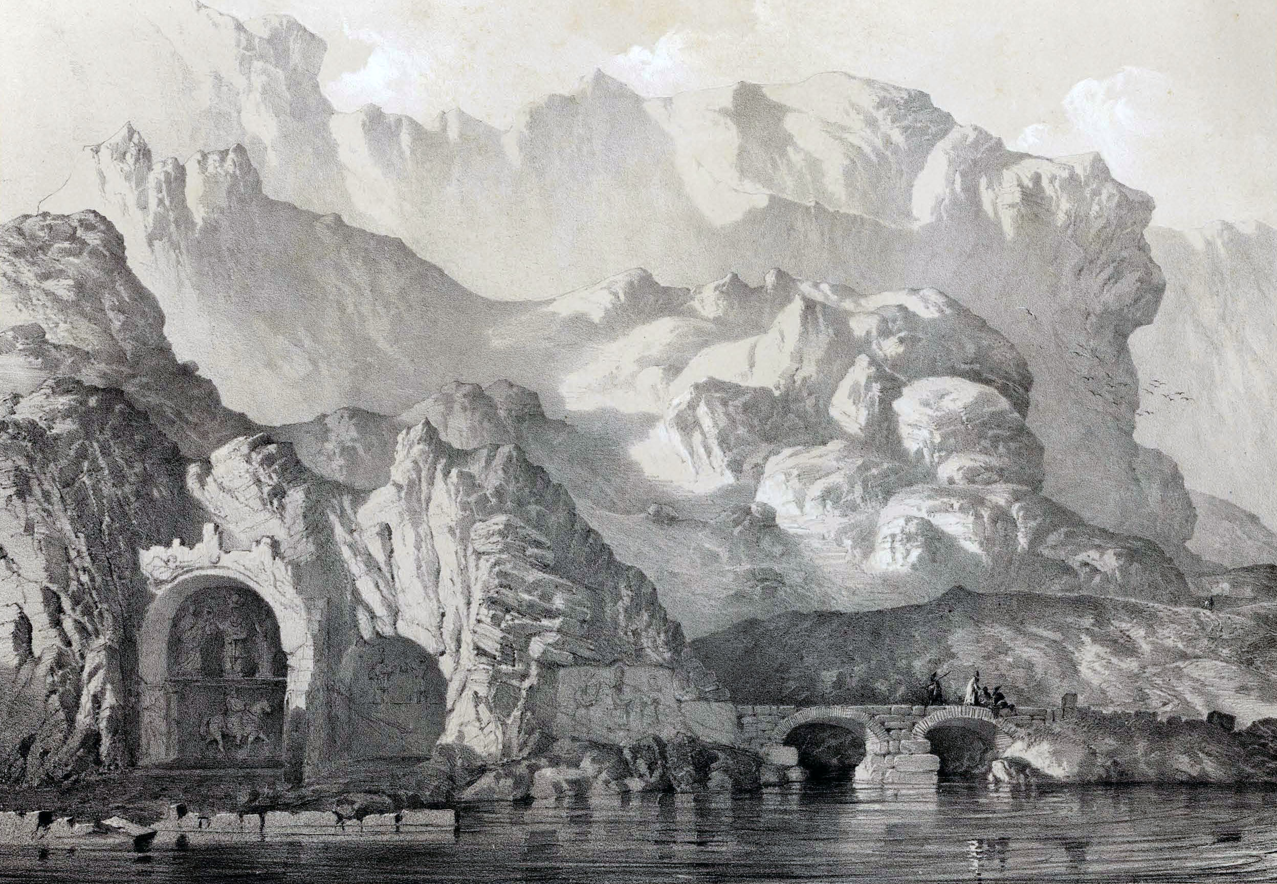 Cave and village Tagh i Bustan , near Kermanshah